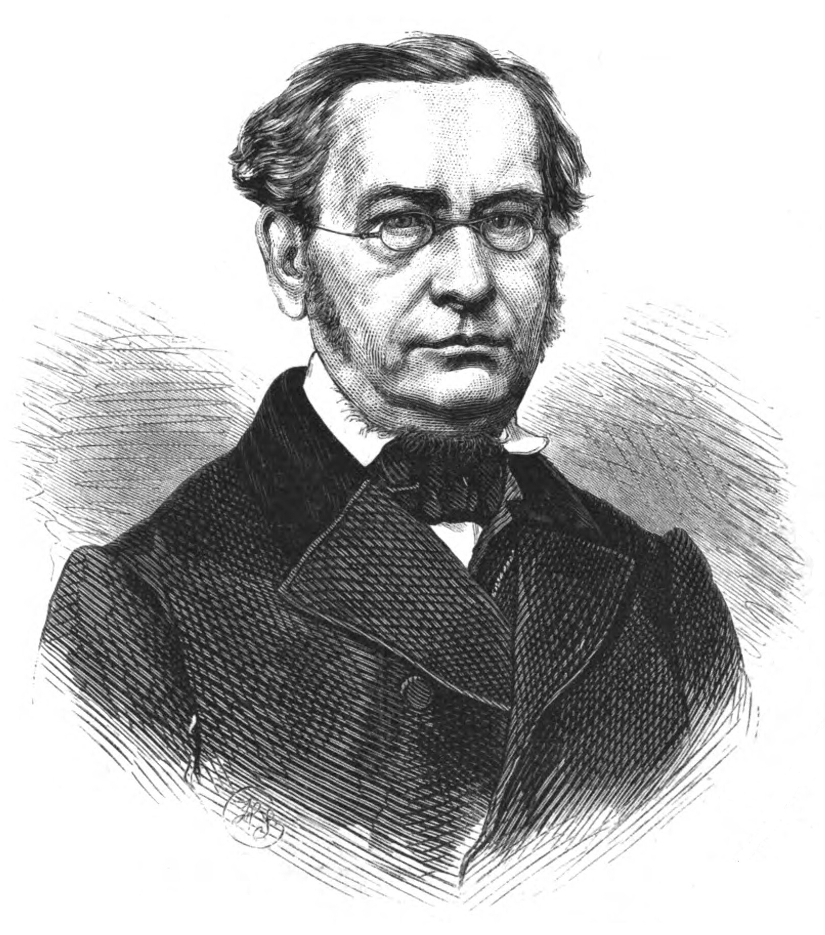 Hans Conon von der Gabelentz (1807–1874), German linguistic researcher and authority on the Manchu language. Wood engraving by Hermann Scherenberg (monogram H.S.) after a photograph by R. Langendorf in Altenburg.